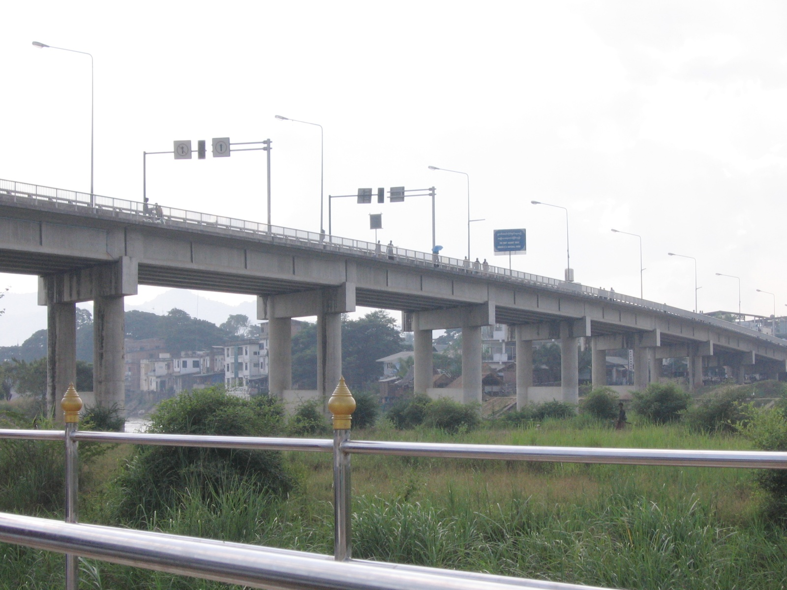 Thai-Myanmar Friendship Bridge on Asian Highway 1 linking Amphoe Mae Sot, Tak, Thailand with Myawaddy, Karen State, Myanmar. Photo taken on Thai side.